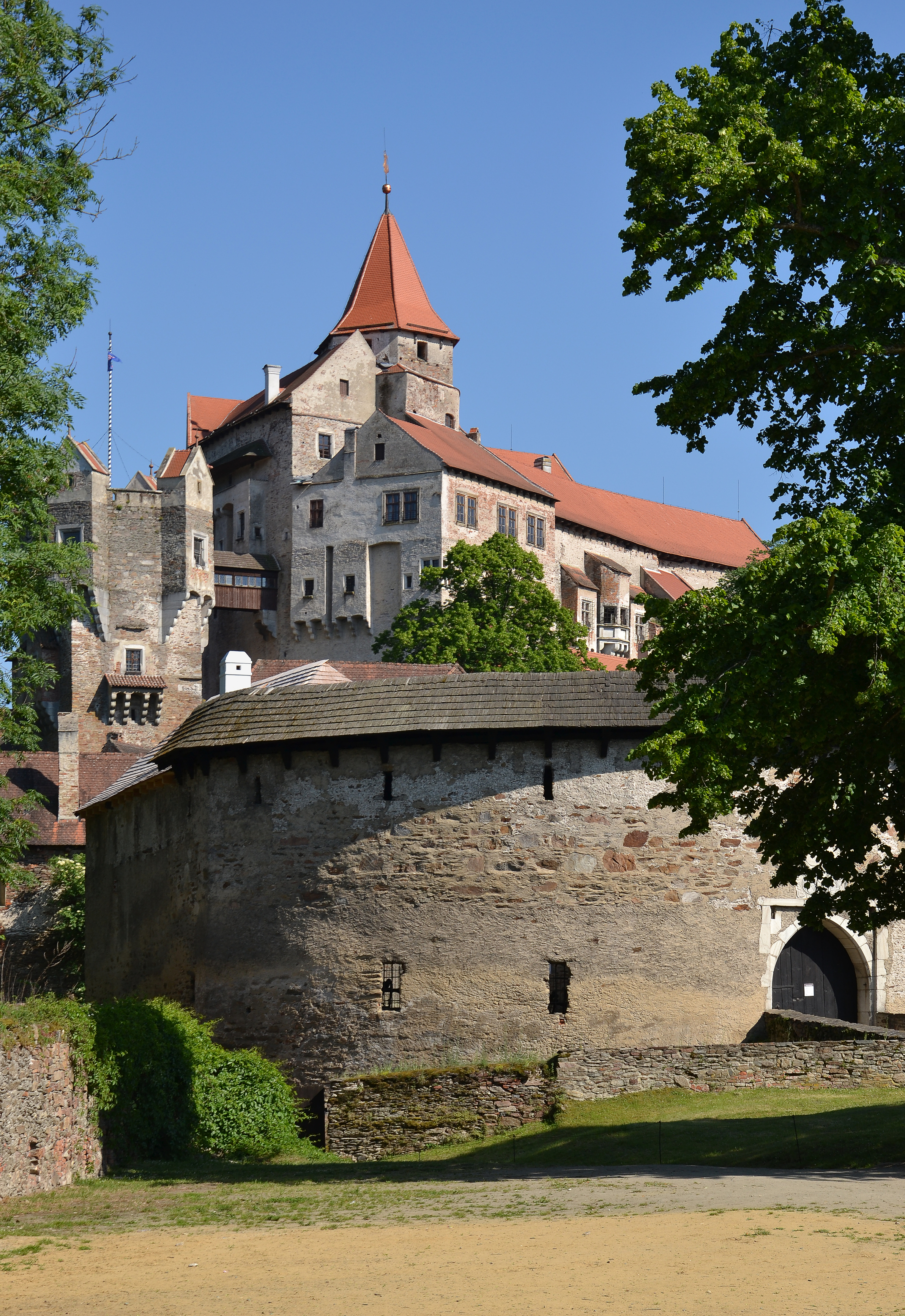 Castle Pernštejn (Pernstein), Moravia